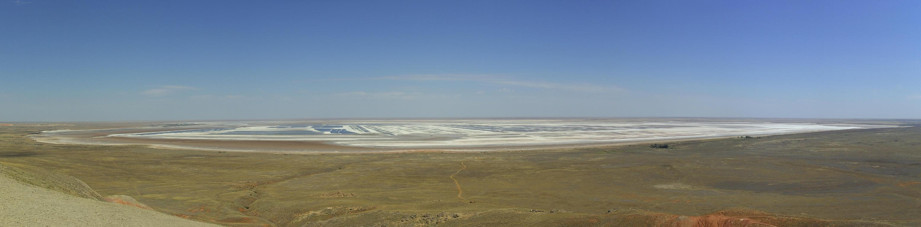 Salt lake Baskunchak (Russian: Баскунчак) in Astrakhan Oblast, Russia. A panoramic view from Big Bogdo mountain.